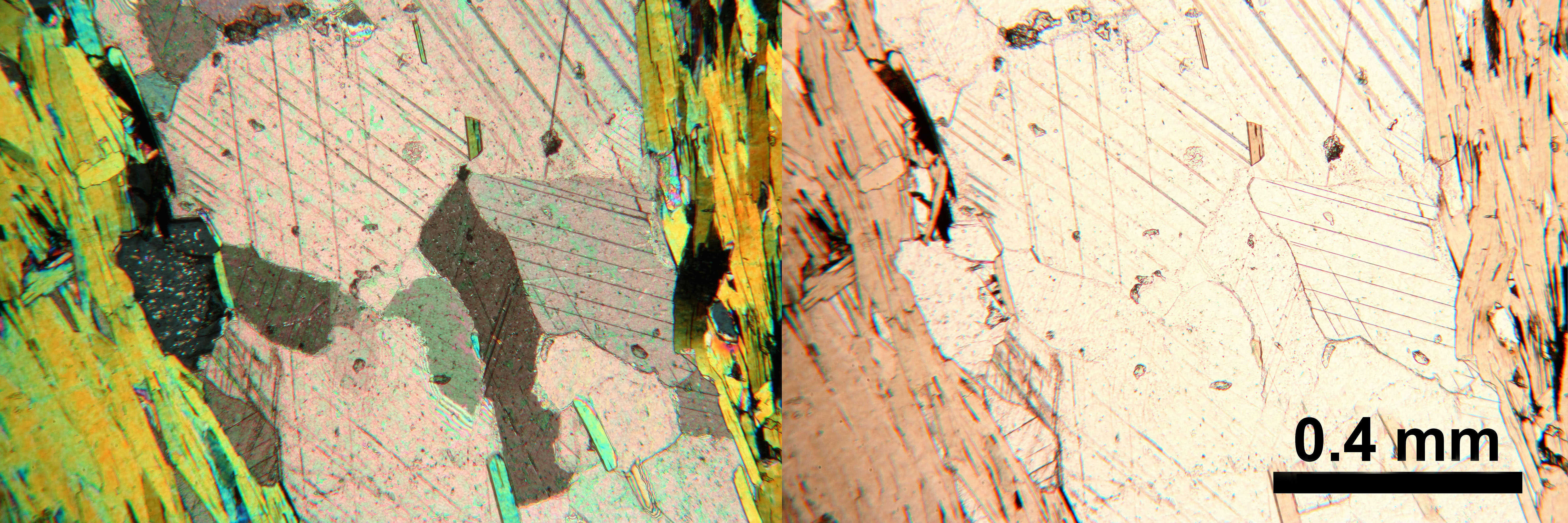 Optical mineralogy: Photomicrographs of thin section from Siilinjärvi apatite ore. Carbonate vein in thin section R276 108.40-108.55. The sample is highly deformed (shear grade 1), as can be seen from uniformly oriented elongated phlogopite laths. The carbonates are present in relatively large unoriented grains, which indicates recrystallisation. Granular aggregates are the most common form of carbonates in Siilinjärvi. Photomicrograph from thin section in cross and plane polarised light.